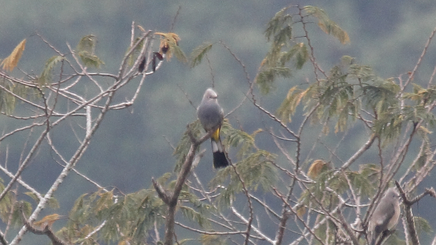 Gray Silky-Flycatcher (Ptilogonys cinereus)